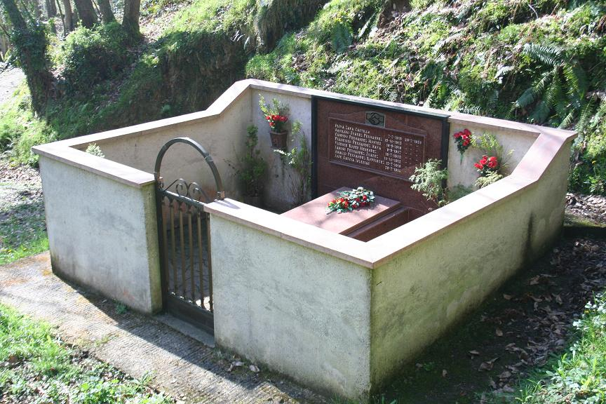 mausoleo asesinados